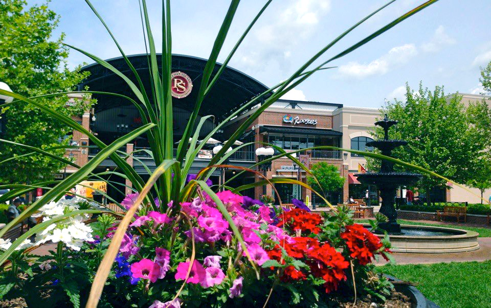 Photo of Pullman Square, taken with an iPhone 5, on May 9, 2013.